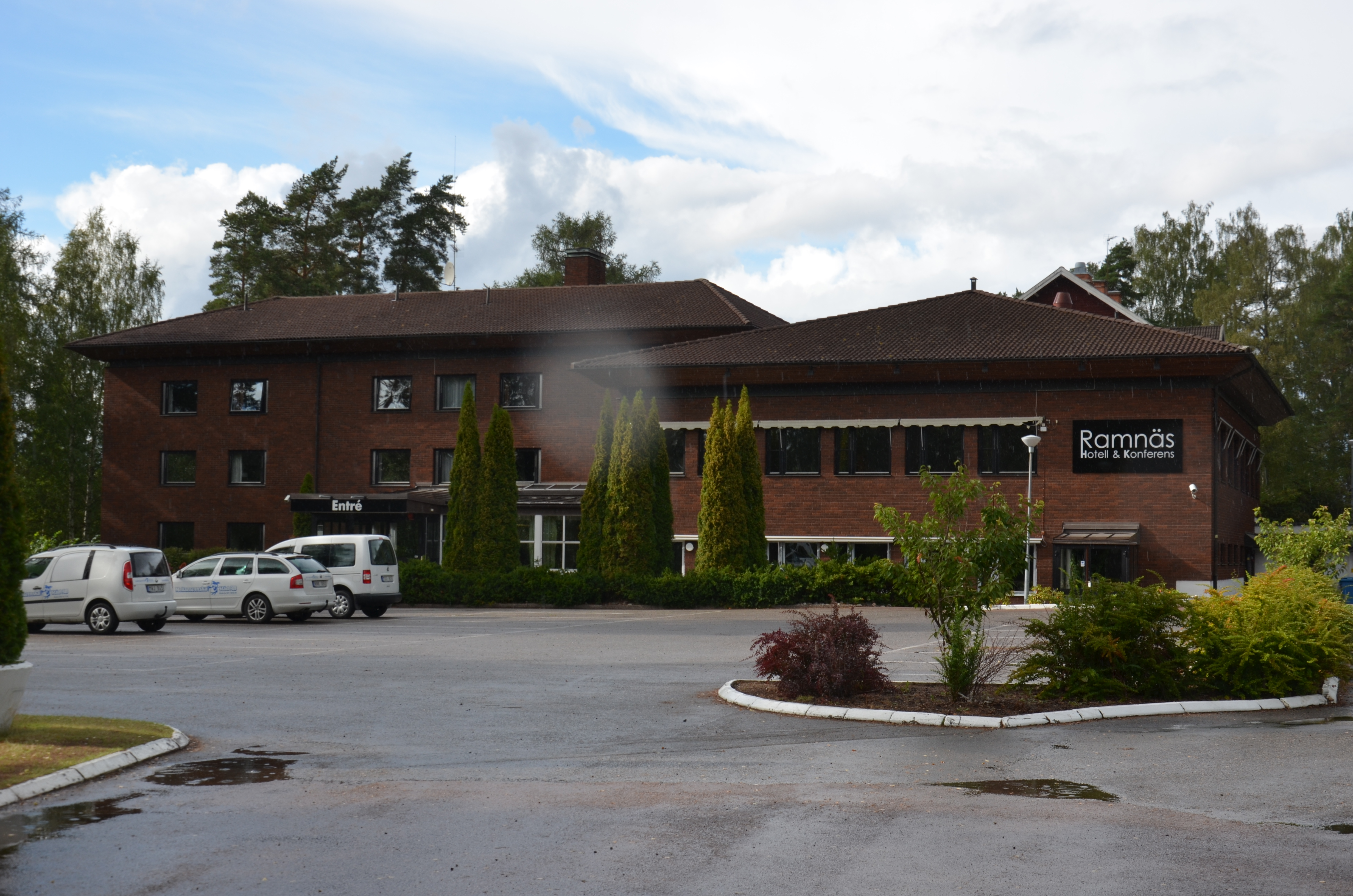 Ramnäs Hotell och Konferens i Ramnäs